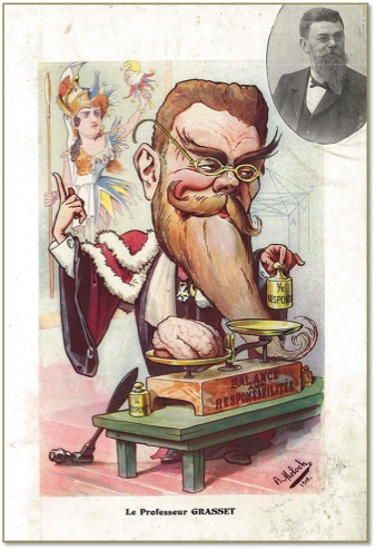 Caricature of members of the Academy of Medicine (Paris) designed by Hector Moloch (signing B. Moloch) and published in the journal "Chanteclair". Each cartoon is added a doctor's photography.